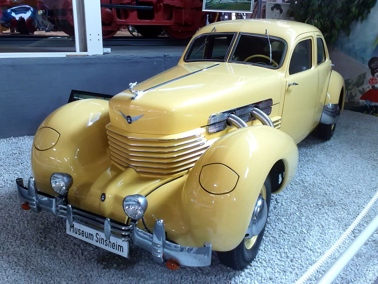 Cord 812 at Auto- und Technikmuseum Sinsheim